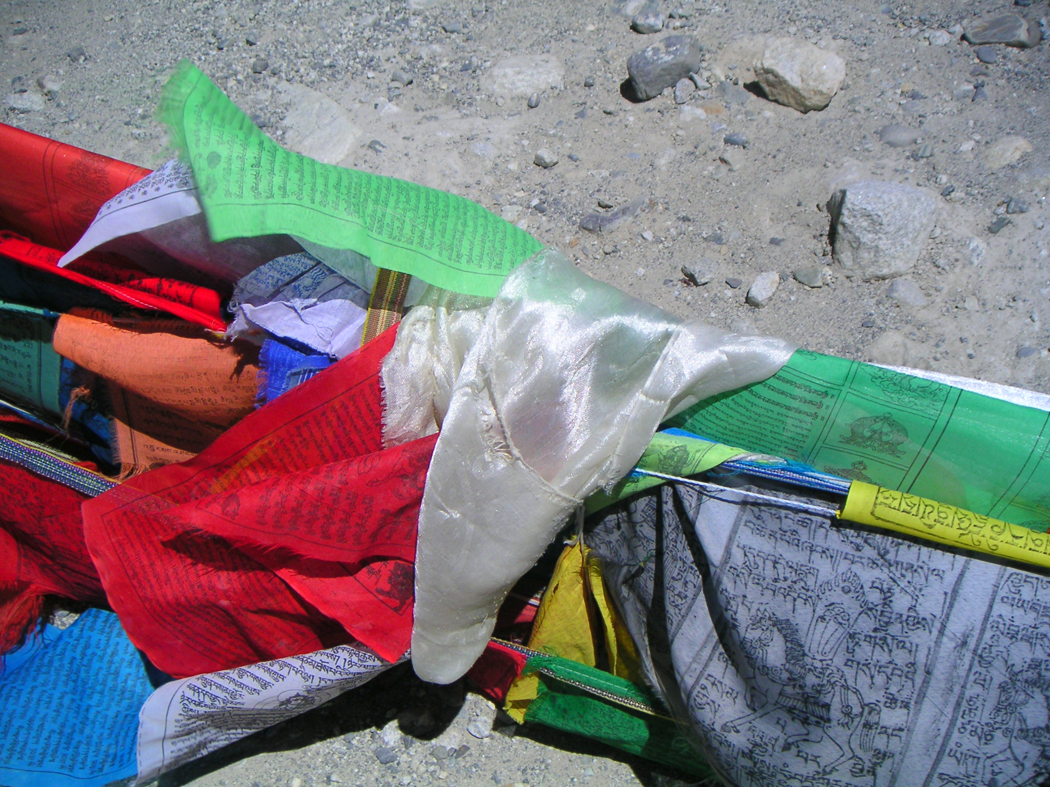 Prayer flags near Mount Everest, Tibet